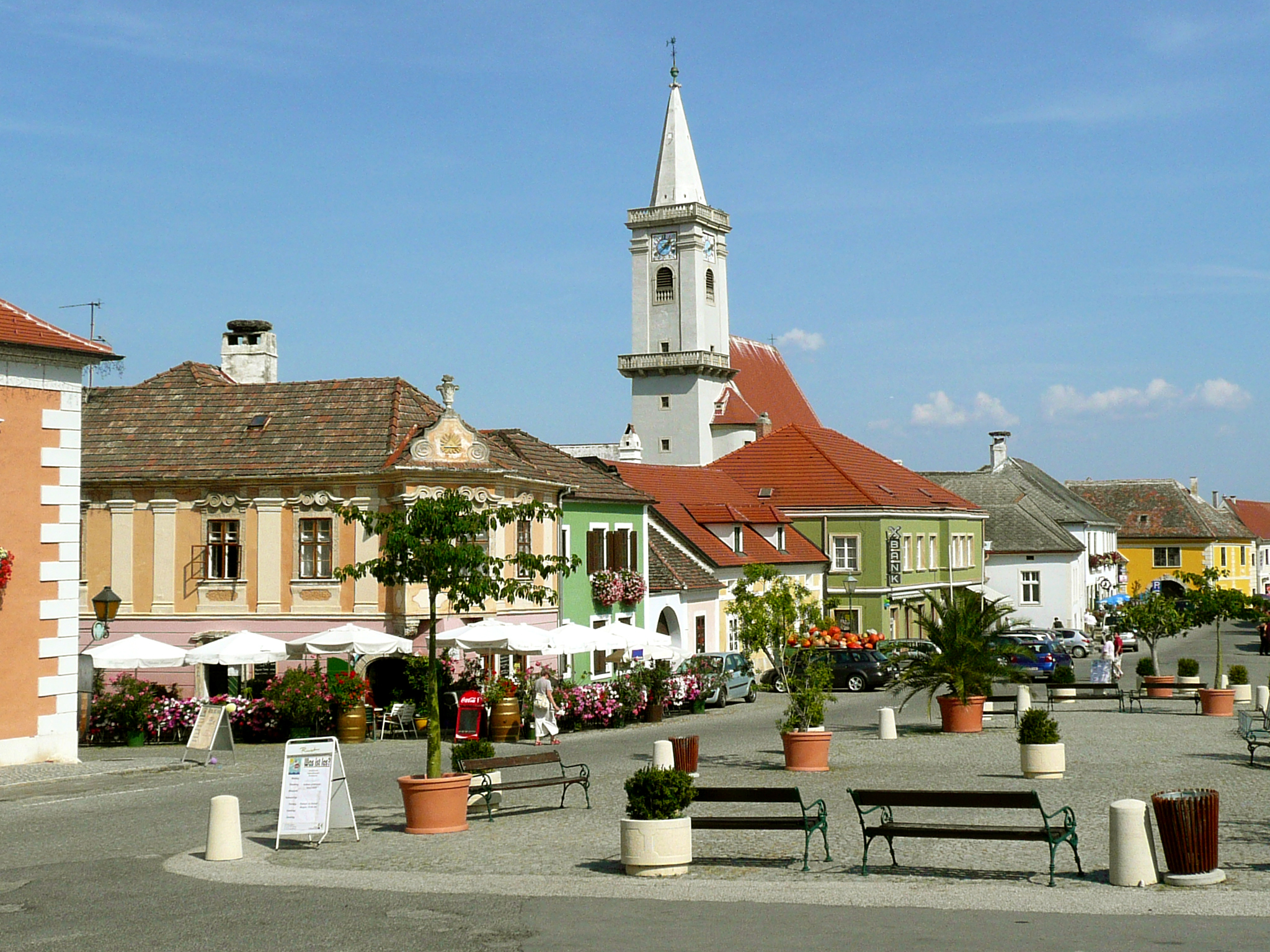 The main place of Rust, Burgenland